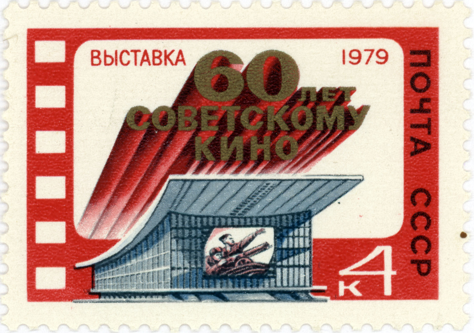 1979 USSR stamp. 60th anniversary of Soviet cinema